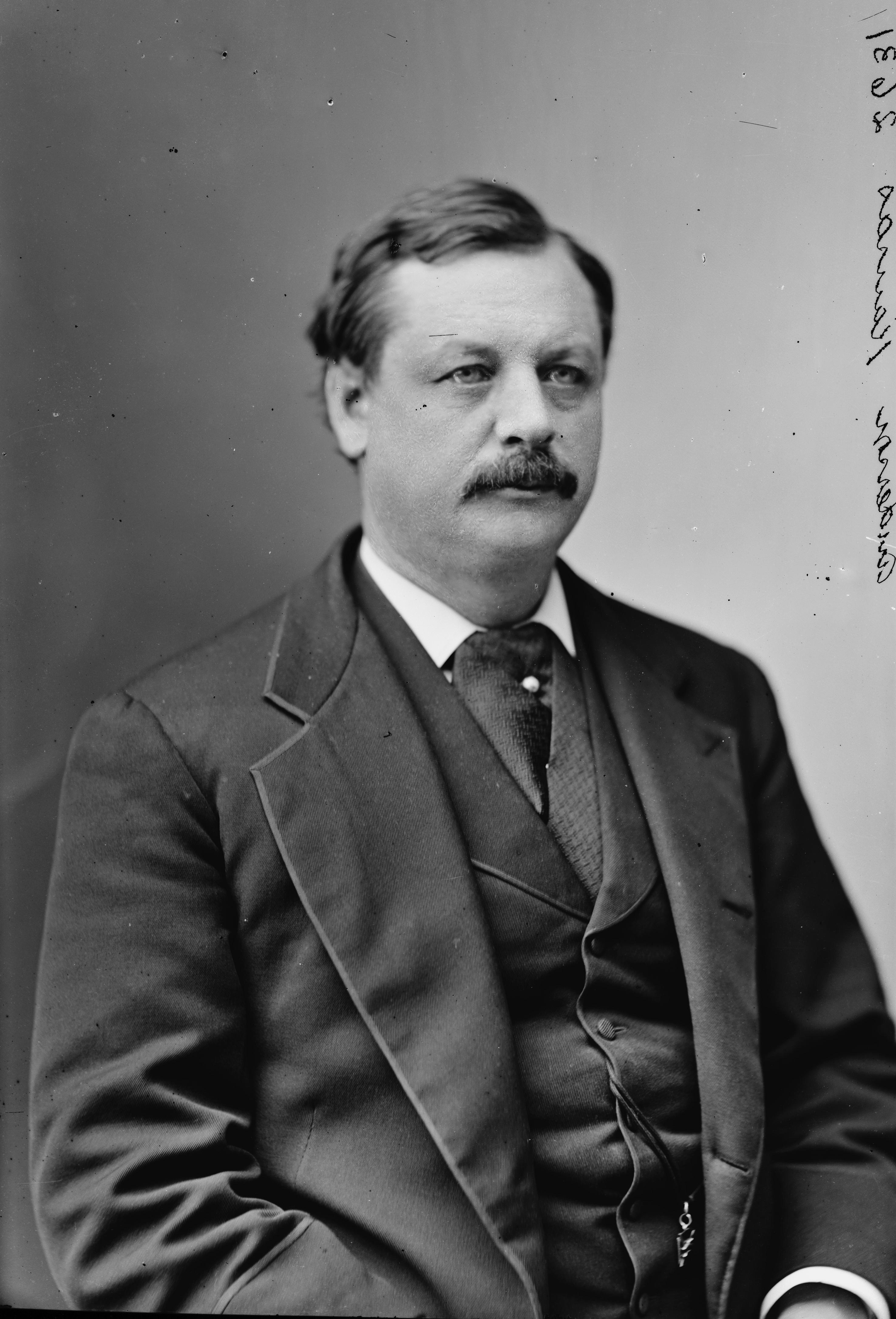 John Alexander Anderson. Library of Congress description: "Anderson, Hon. of Kansas"